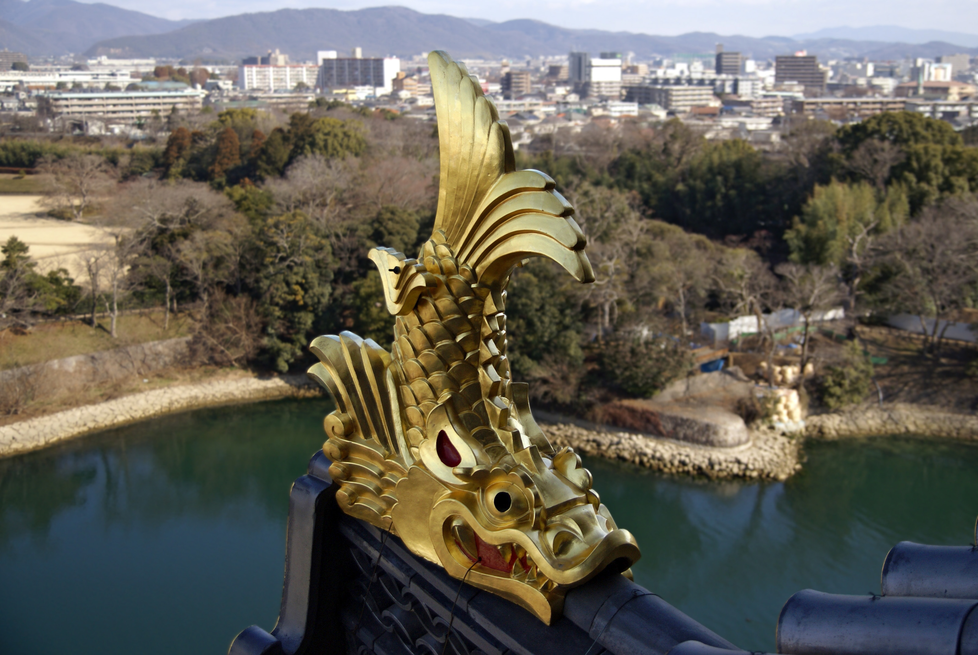 Okayama Castle in Okayama, Okayama prefecture, Japan